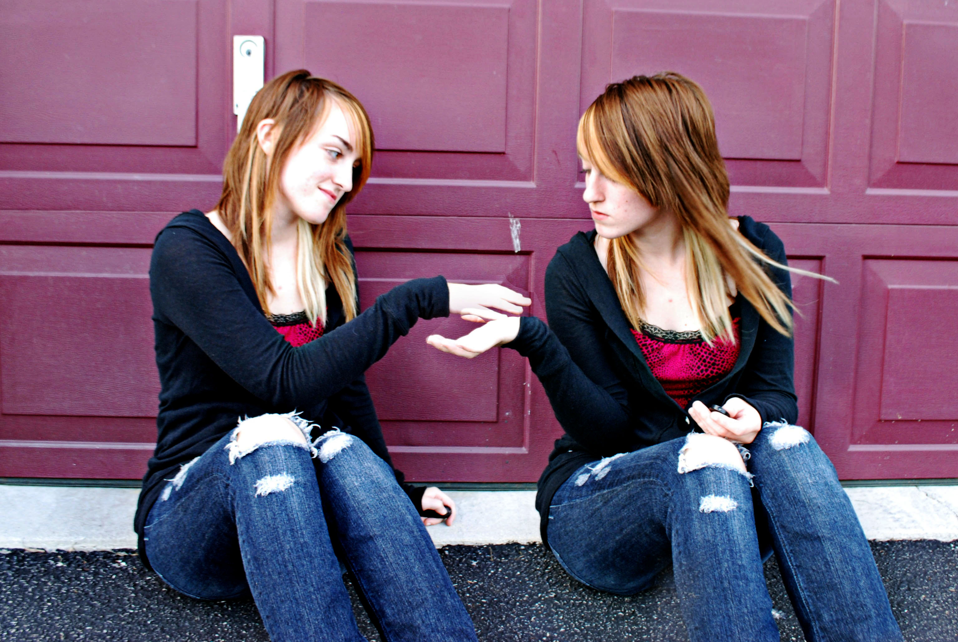 Twins?